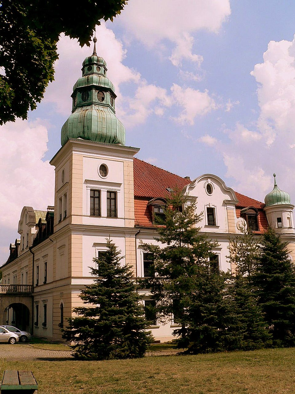 Palace in Kamieniec (Silesian Voivodeship).